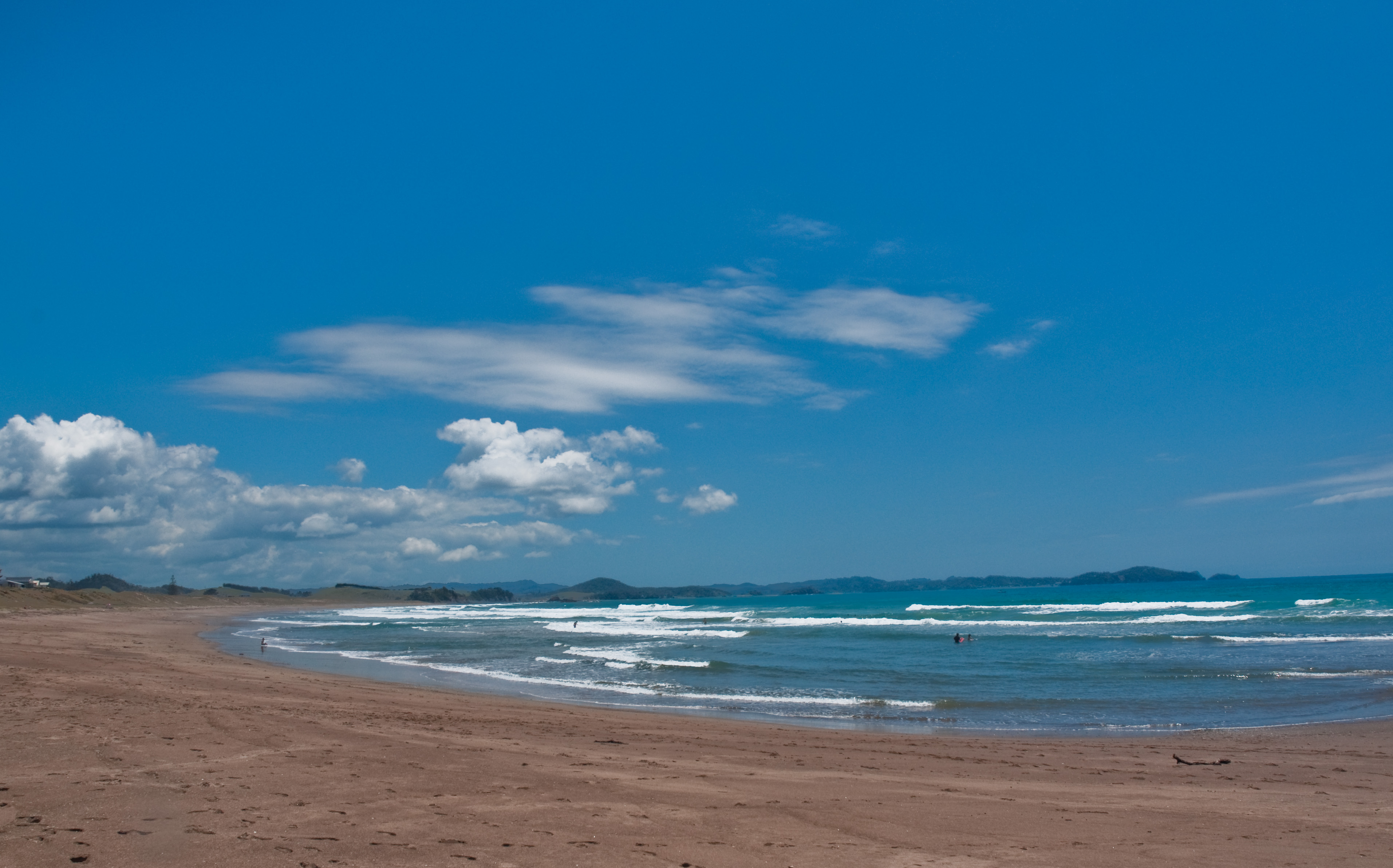 Ngunguru Bay, Northland, Nesw Zealand, 5th. Dec. 2010